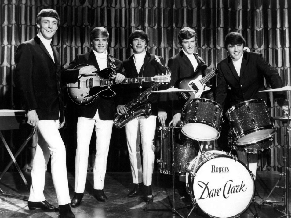 Publicity photo of The Dave Clark Five from their cameo performing appearance in the US film Get Yourself a College Girl.